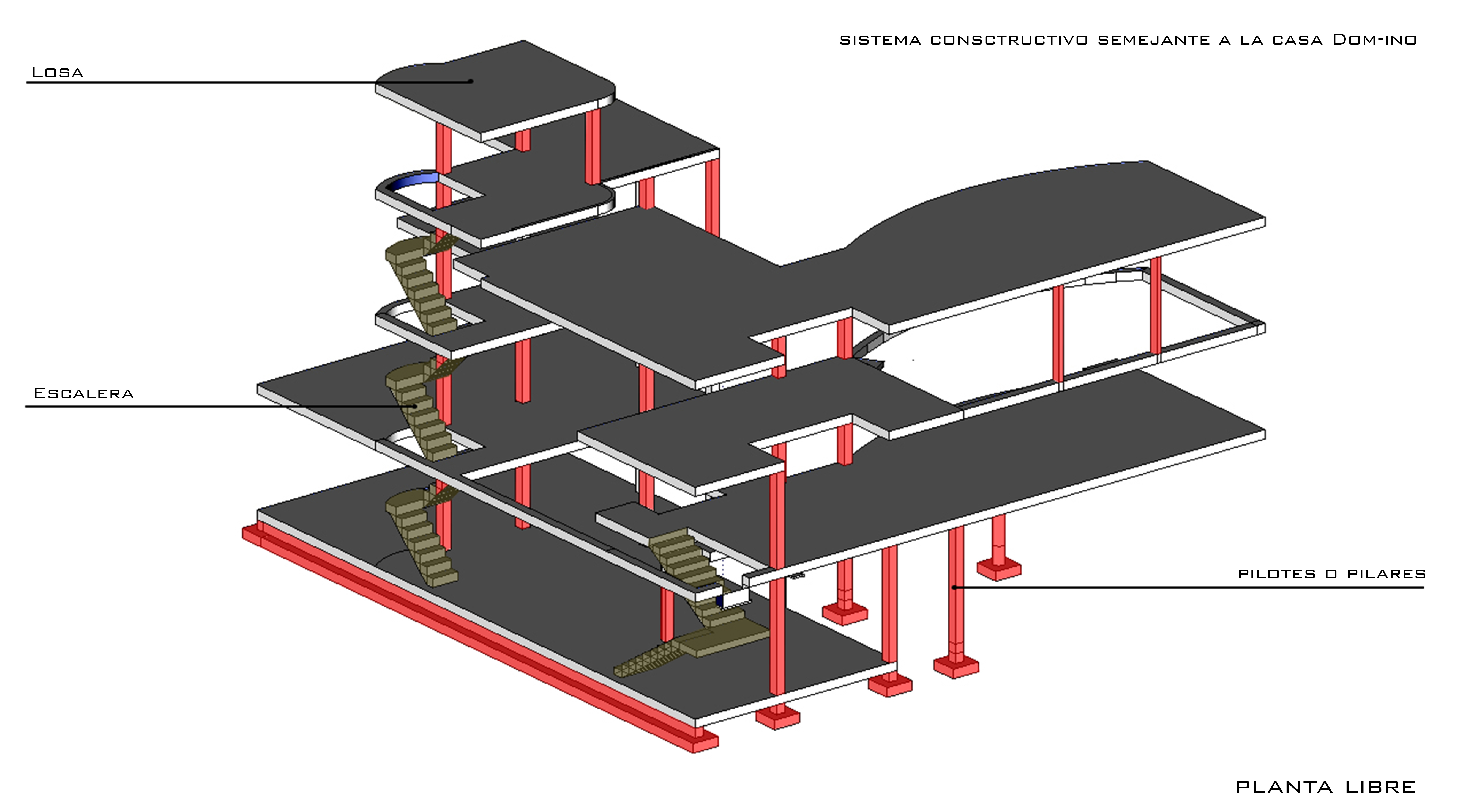 Planta Libre